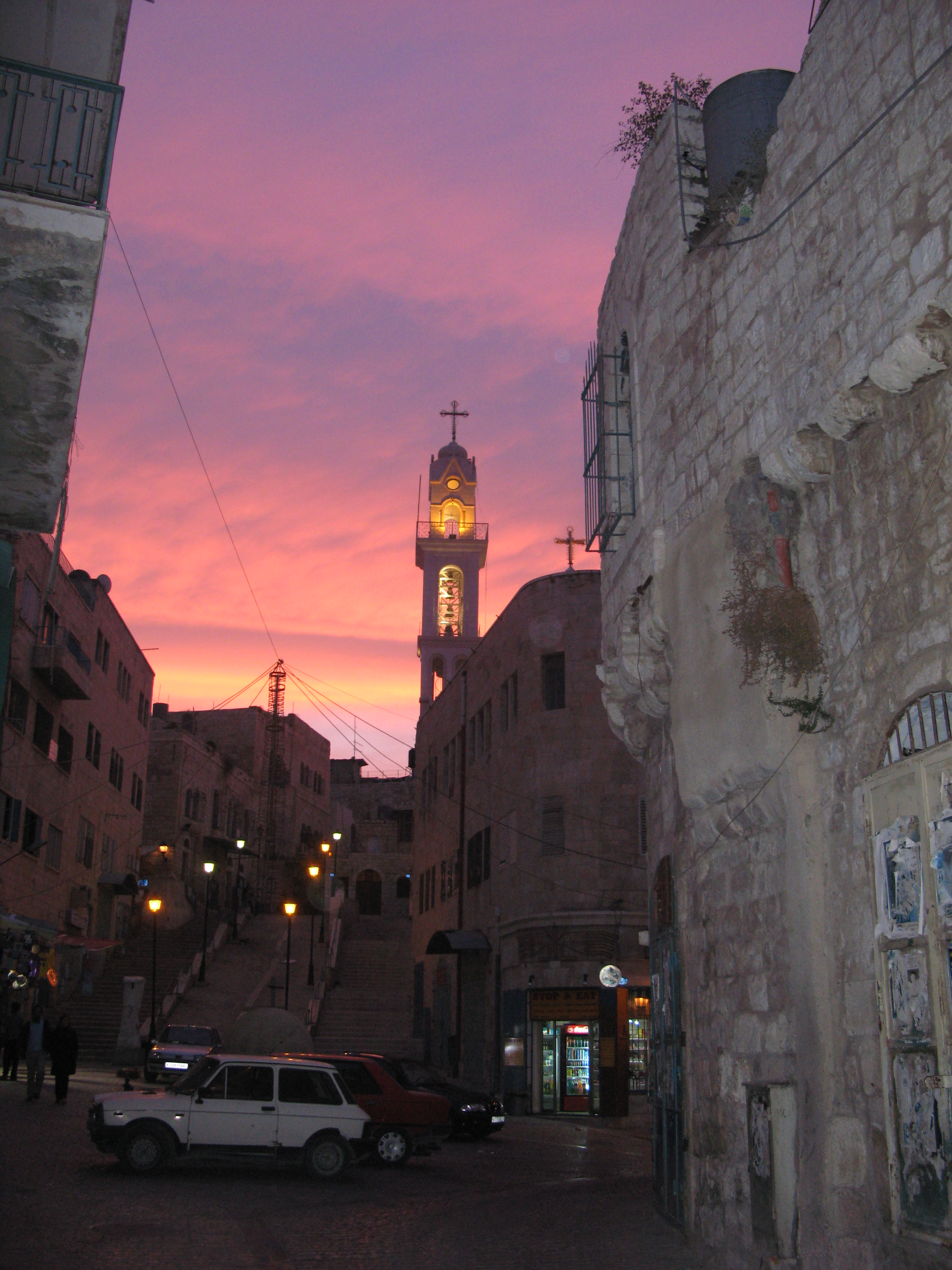 Bethlehem by night